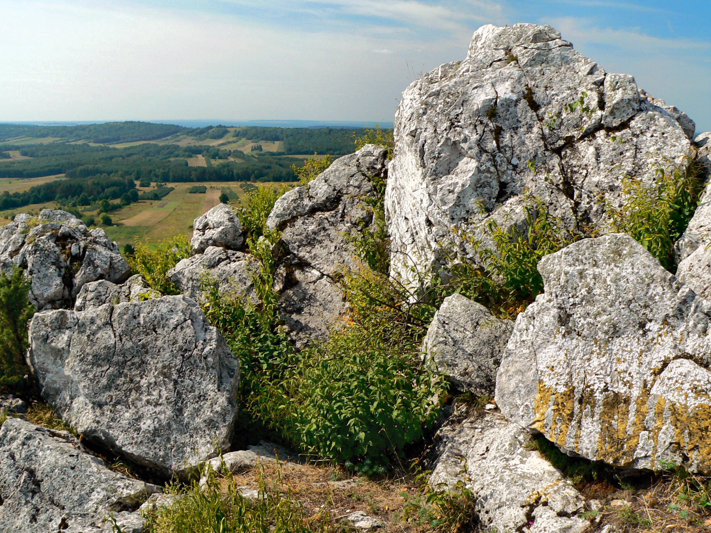 One of the most bizzarre places of the Holycross region, is the Miedzianka mountain (only 354 m a.s.l.), towering over the village of the same name. Its name comes from the copper mines that were active from 15th till the first half of the 20th century. The mountain hides 4 kms of shafts and 10 caves.